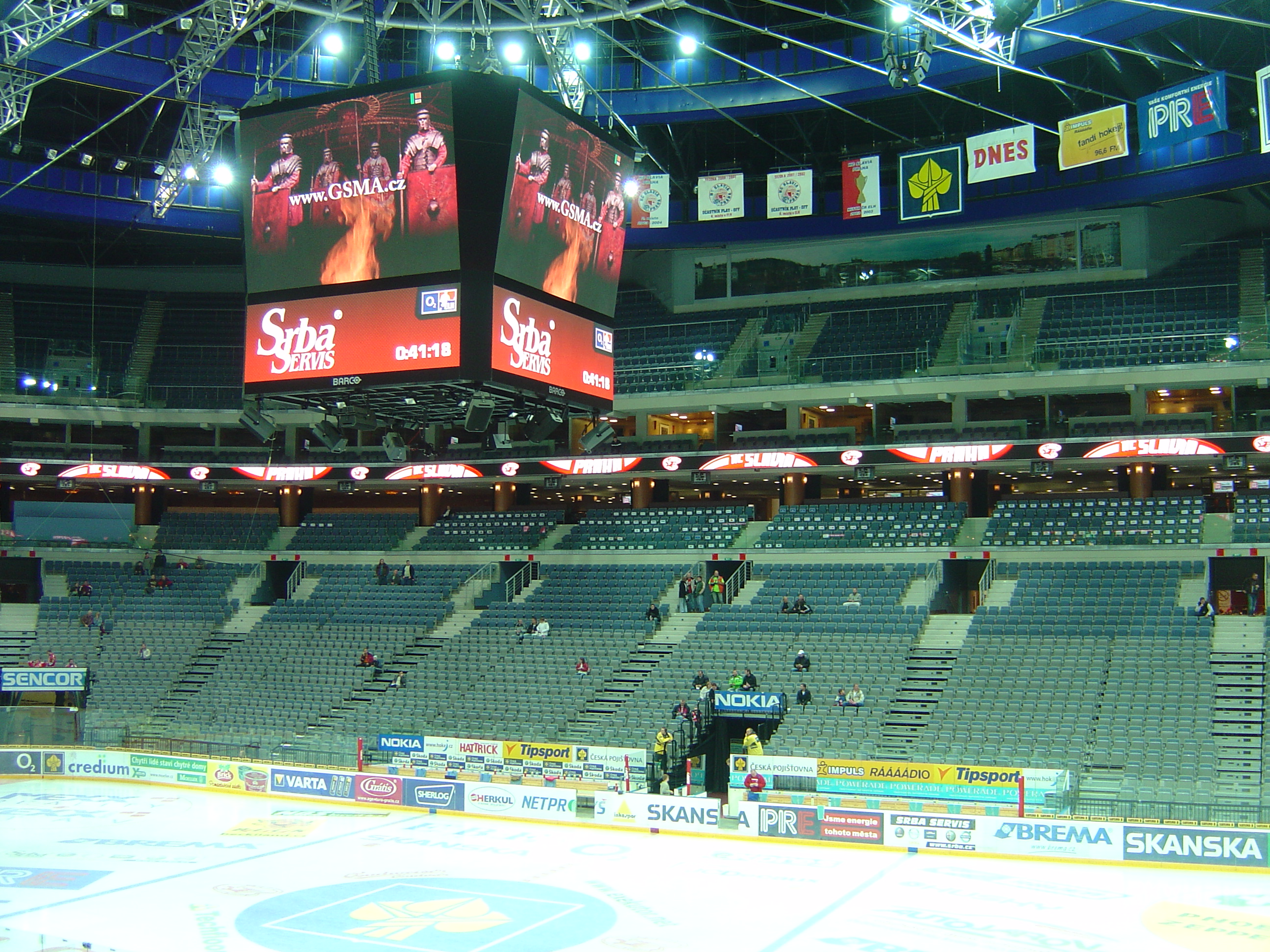 Sazka Arena in Prague, Czech Republic, one of the most modern multifunctional arenas in Europe